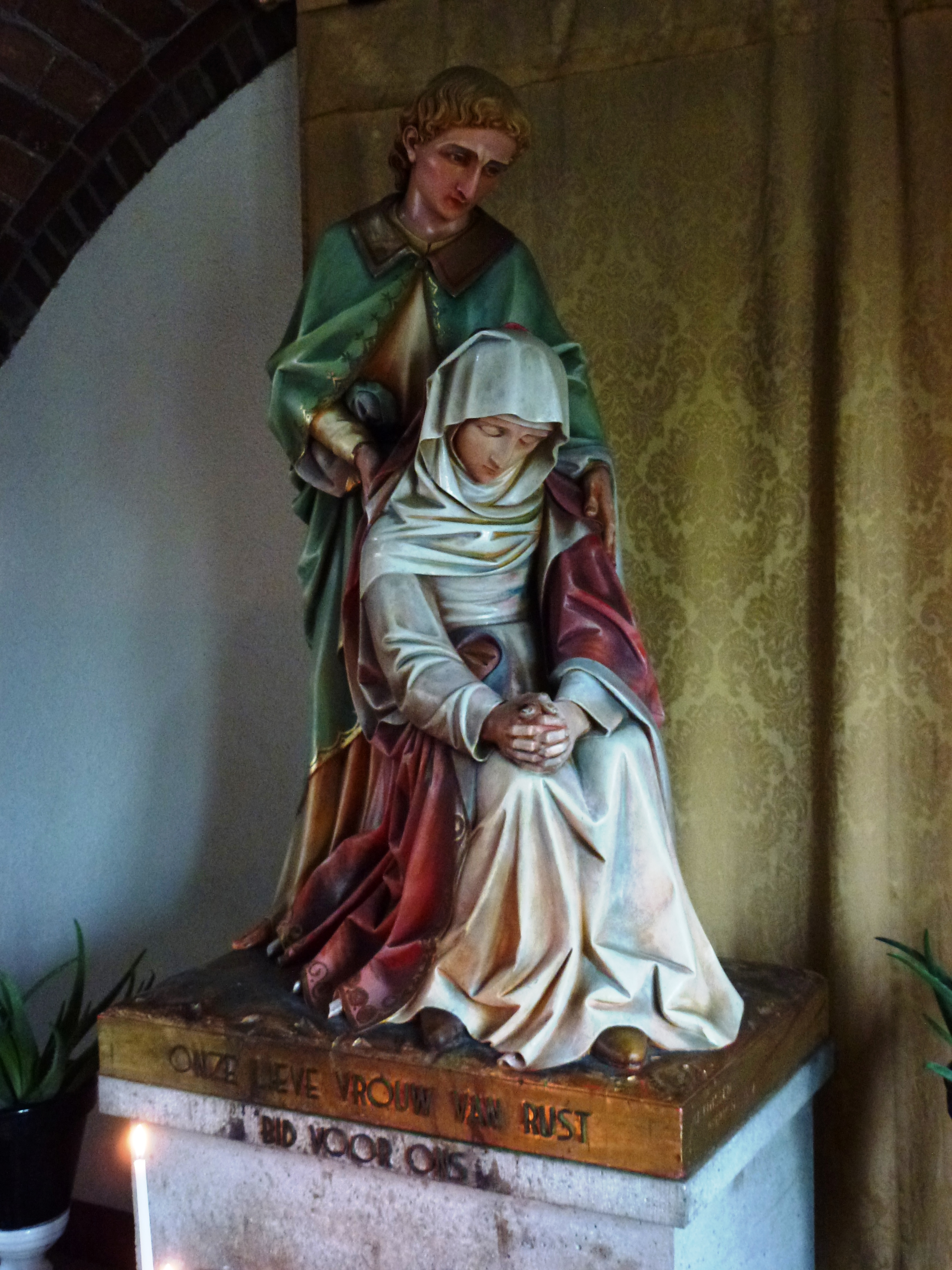 Herten, Roermond, kerk, beeld Onze Lieve Vrouw van Rust